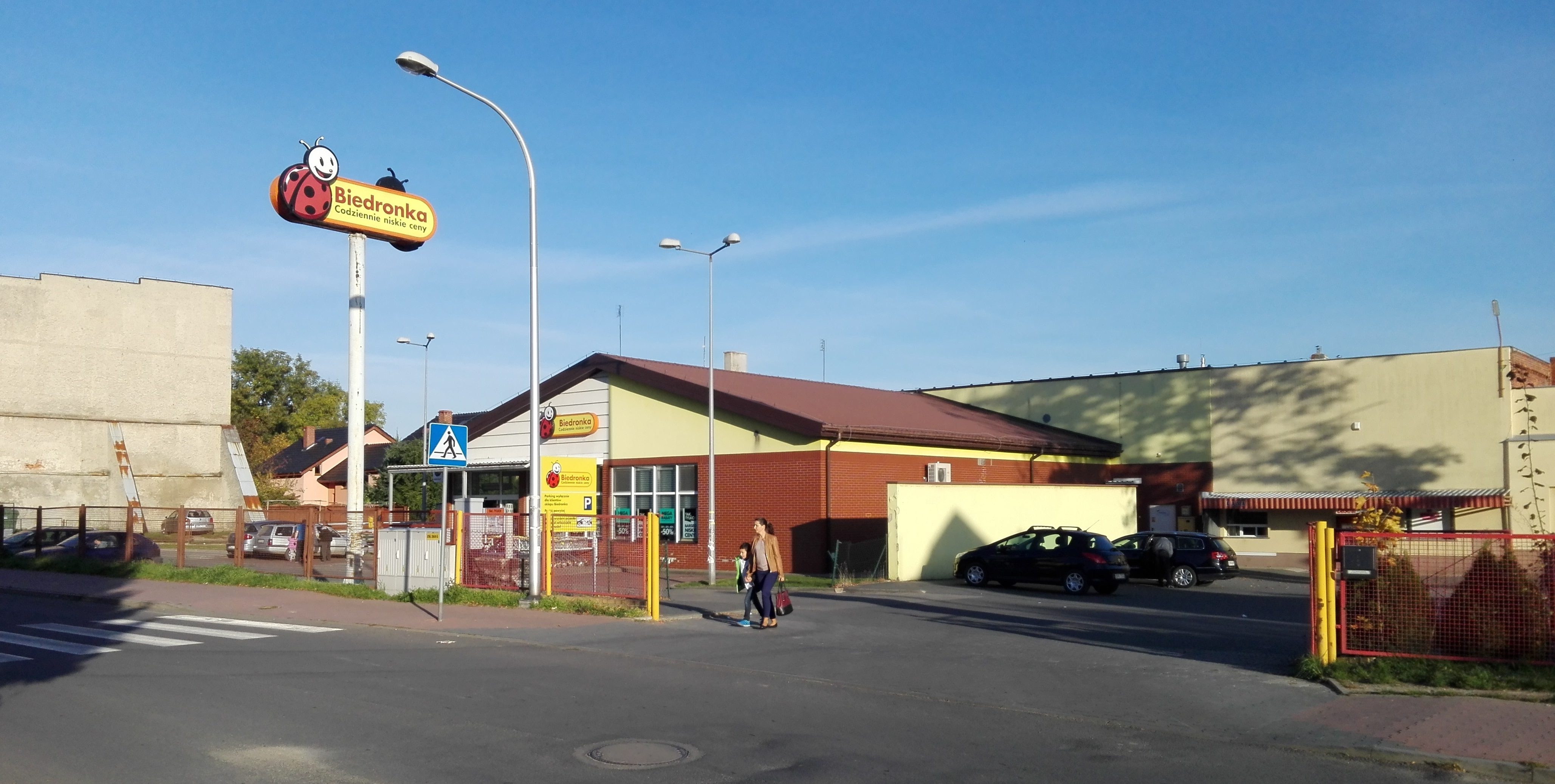 1 Henryka Sienkiewicza Street in Prudnik